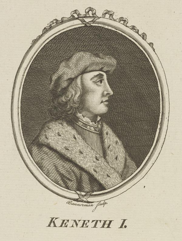 An 18th century depiction of Kenneth